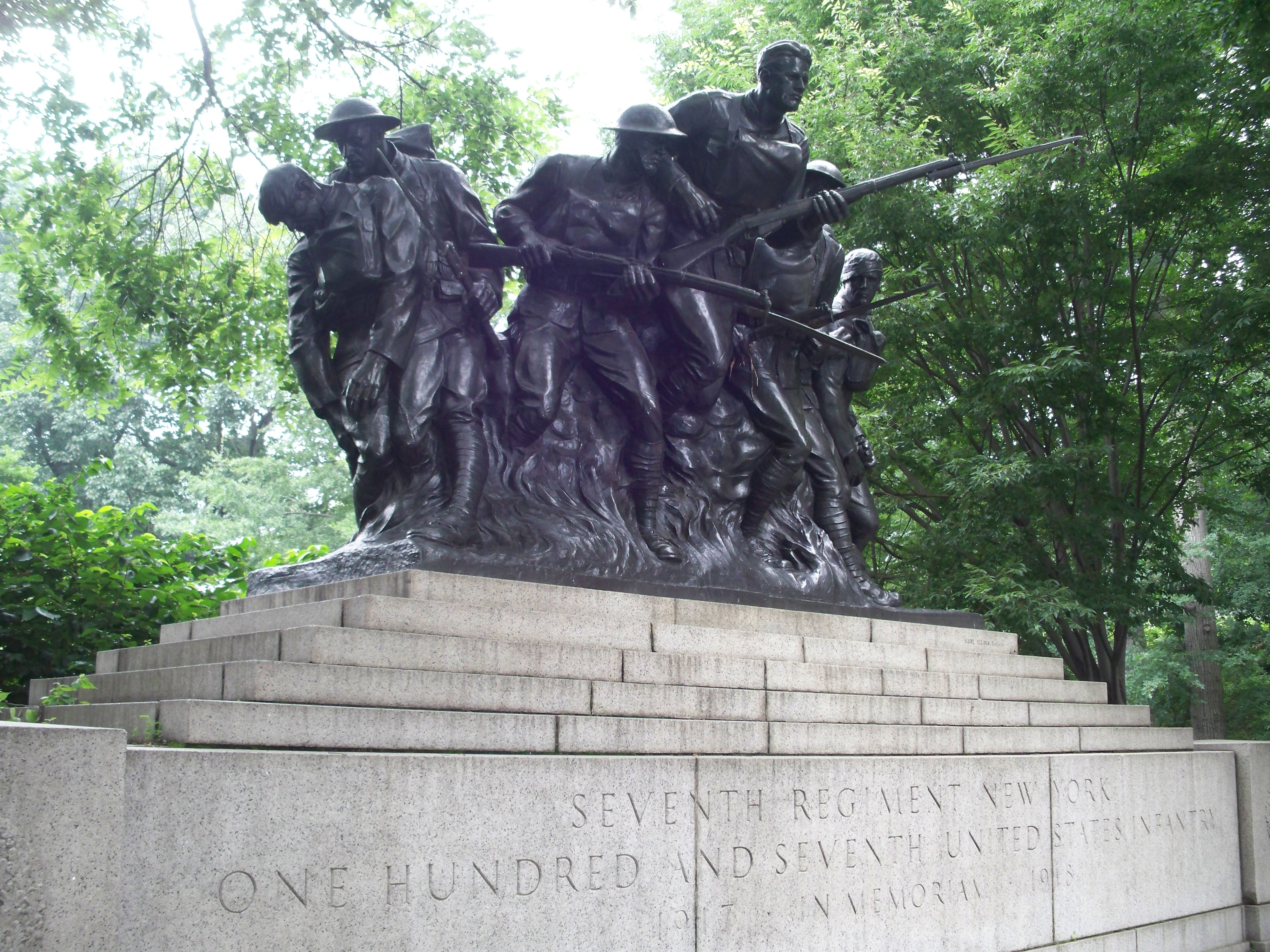 Memorial to the 7th Regiment (New York) of the 107th Infantry, Central Park & E67th St, Manhattan, NYC